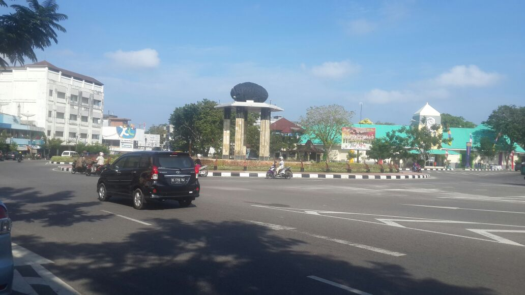 Downtown Tanjung Pandan, the largest city in Belitung Island